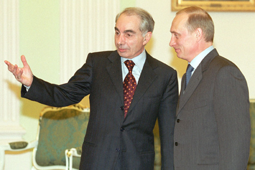 THE KREMLIN, MOSCOW. President Vladimir Putin and Italian Prime Minister Giuliano Amato.